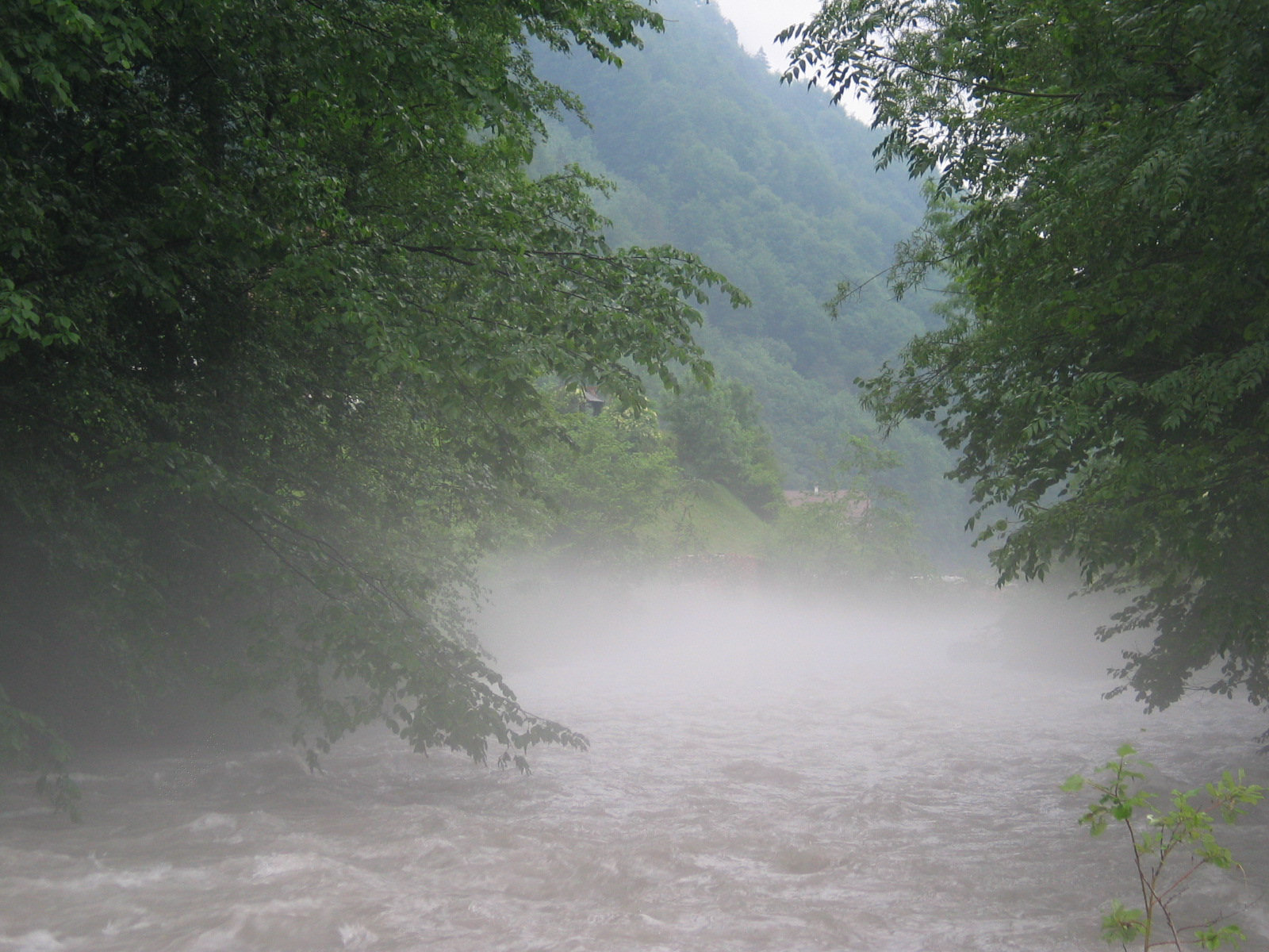 Ground fog, Engelberger Aa, Switzerland.